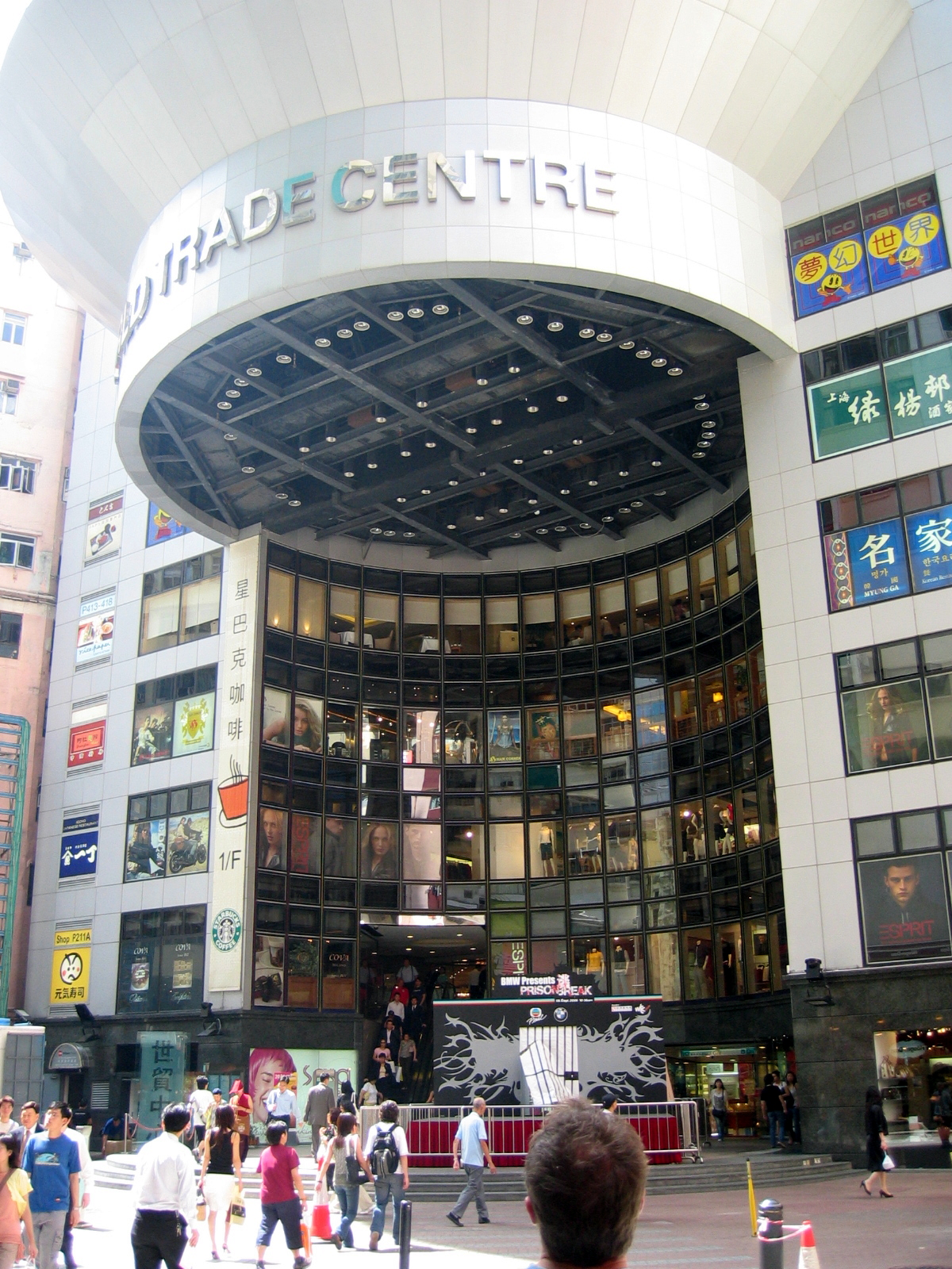 Hong Kong World Trade Centre Enterance 2008年大裝修前的世貿中心，謝斐道入口